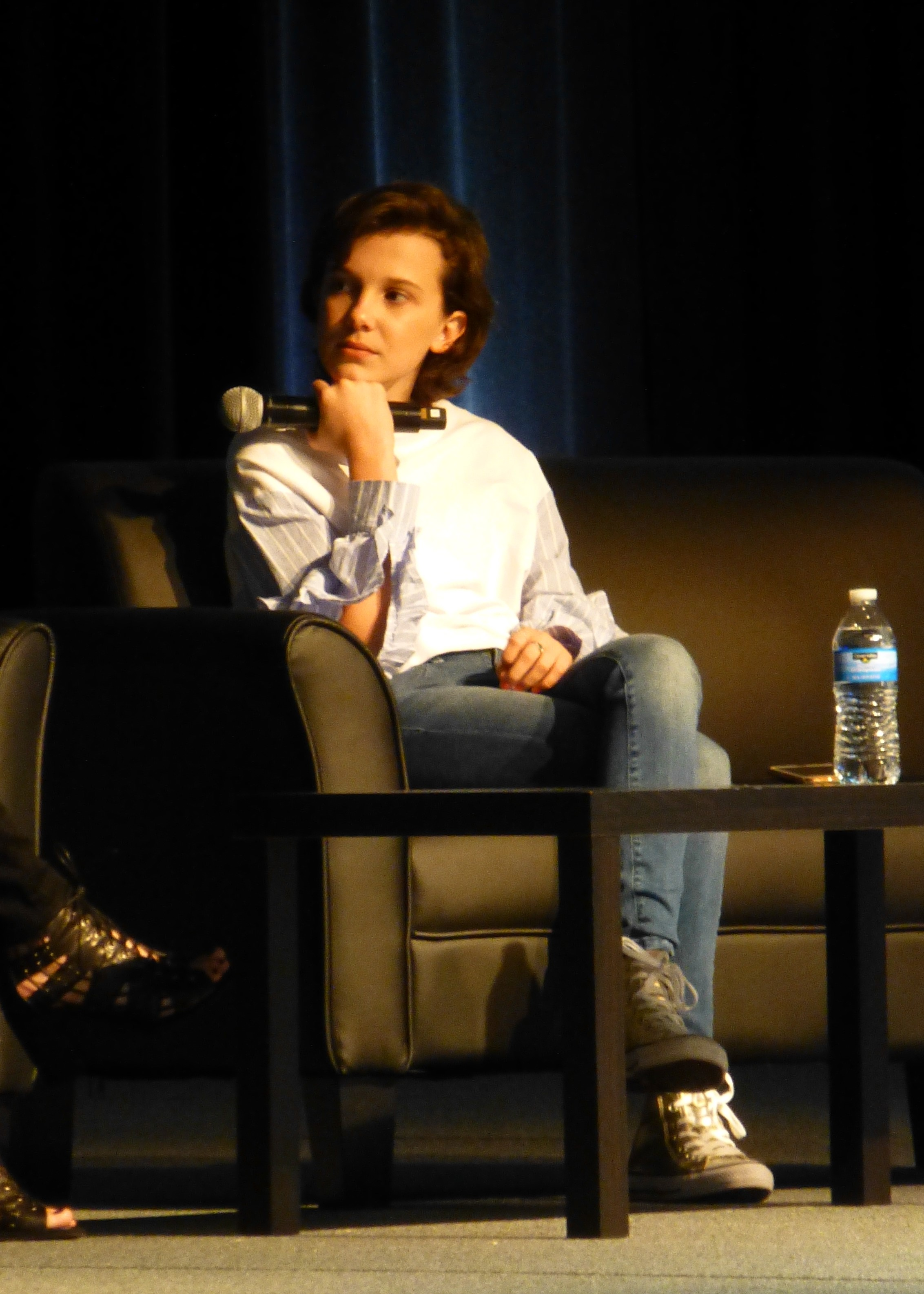 Millie Bobby Brown at the 2017 Wizard World Cleveland.